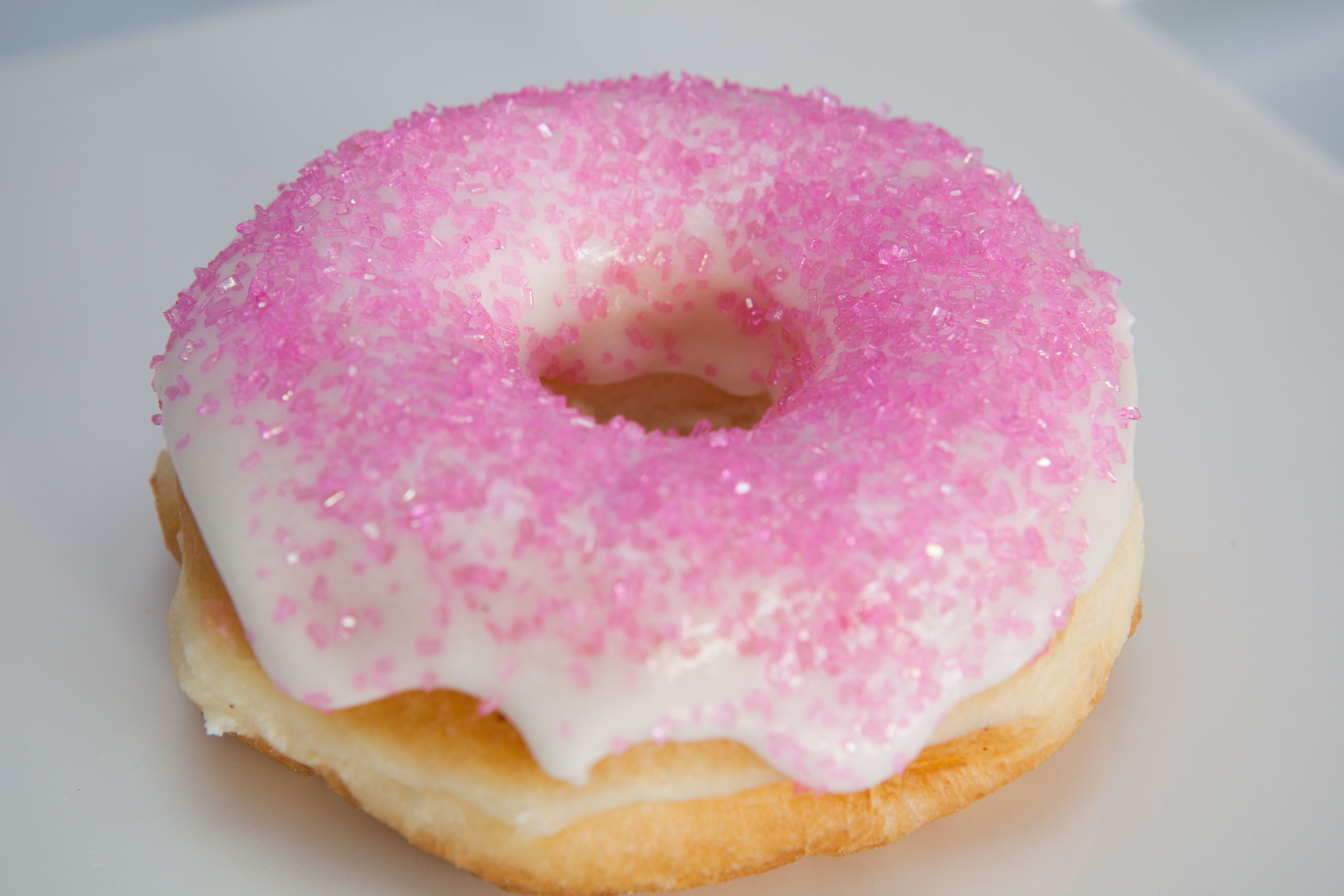 Wedding-Halloween Doughnuts 2014-408